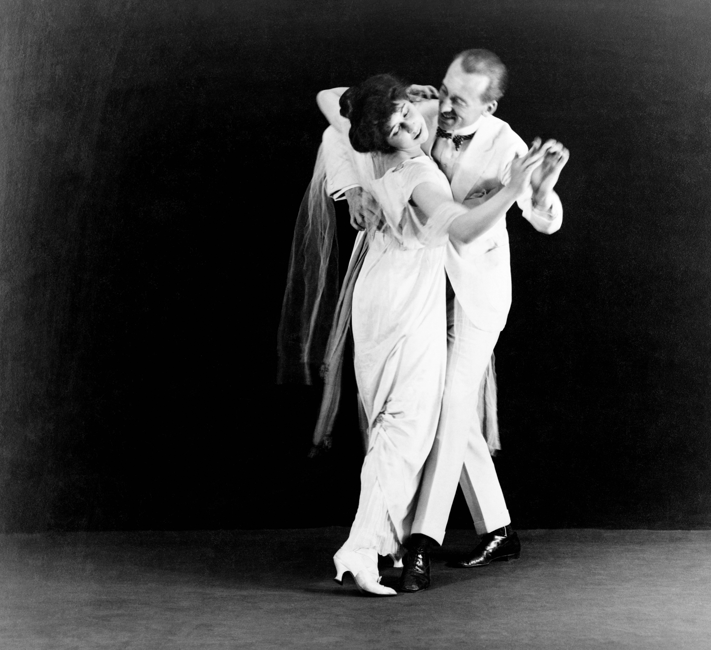 Dancers Vernon and Irene Castle. Gelatin silver print.